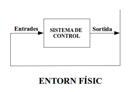 Created with LibreOffice Draw & GIMP